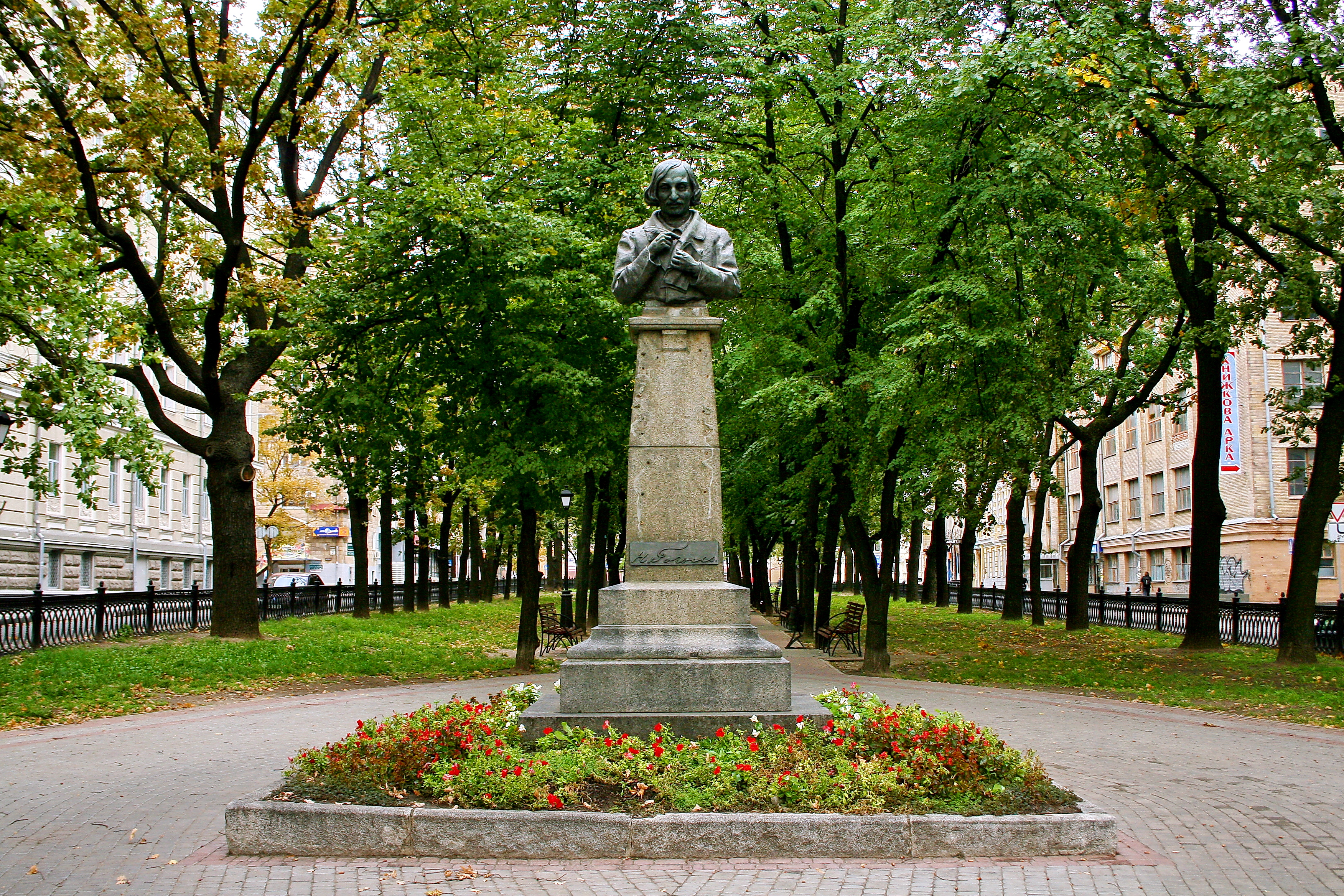 Gogol monument